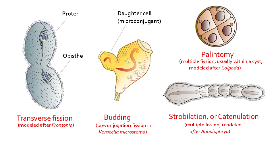 Several types of ciliate fission. There is an SVG version of the file on Wikimedia commons, but Wikipedia renders the text poorly.